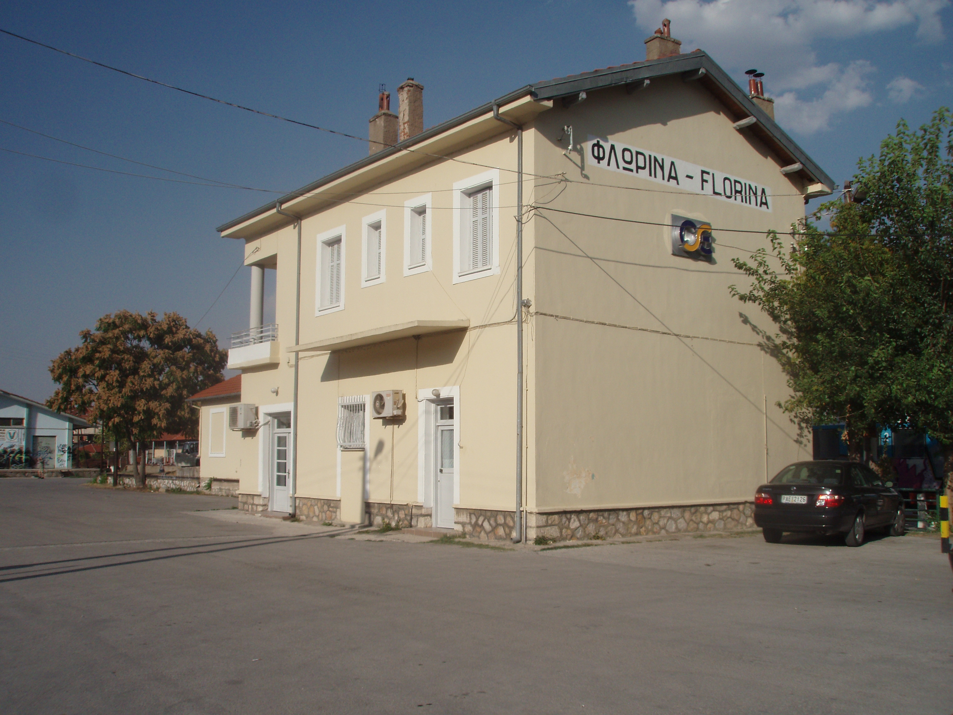 Railway station of Florina (city), Greece. It the terminus of the Thessaloniki-Florina railway line.